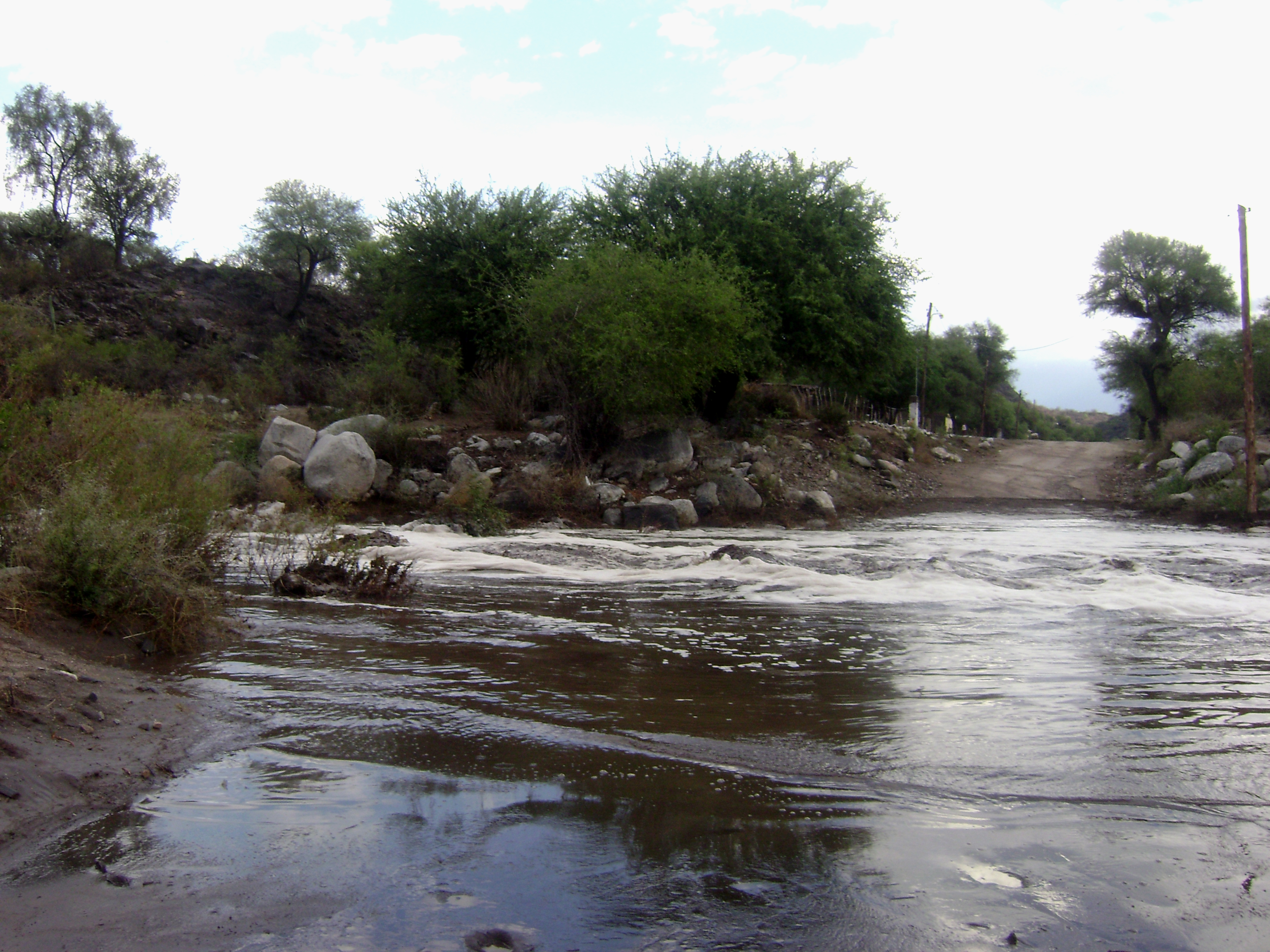 NacateRiver